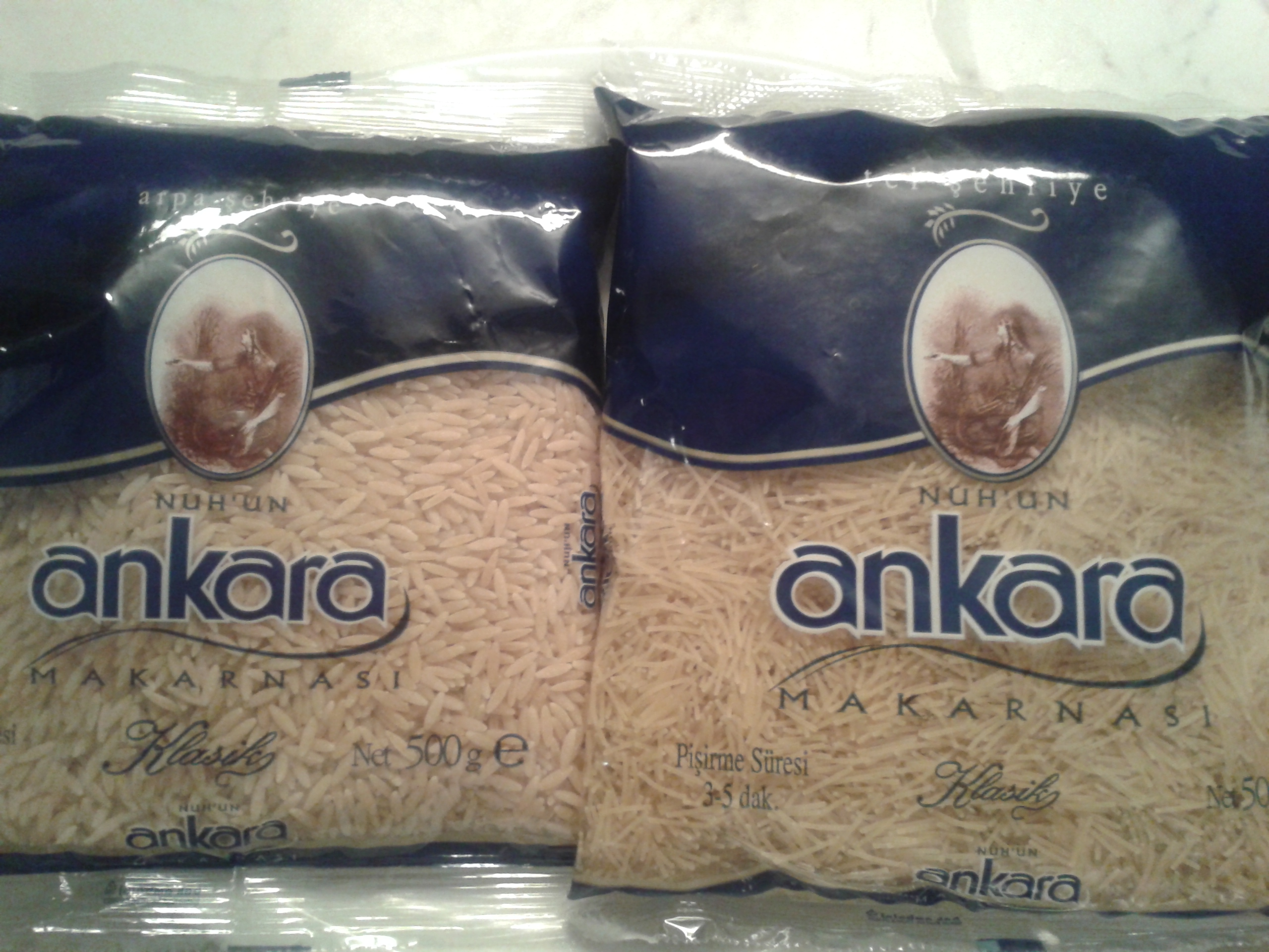 "Tel şehriye" and "arpa şehriye", altogether.